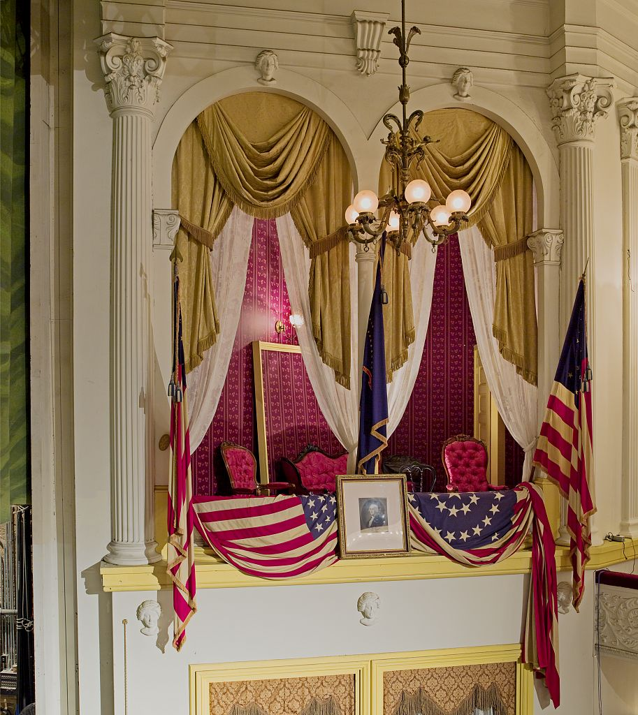 The Presidential Box at Ford's Theatre in Washington, D.C.. This was the location of the assassination of Abraham Lincoln.